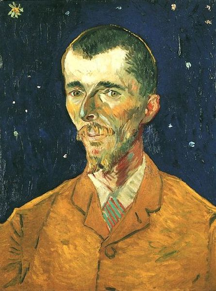 Van Gogh's portrait of Eugene Boch, painted Arles, 1888